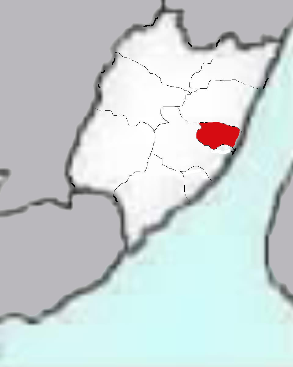 Maps of Fujian Province, China